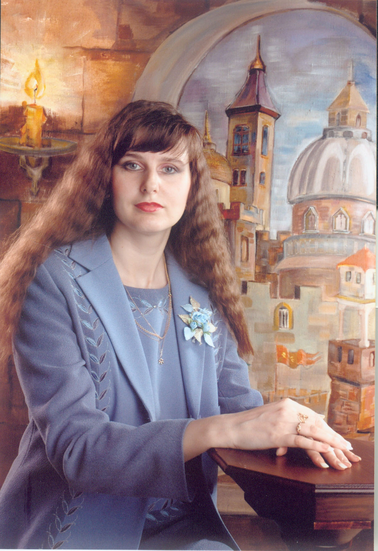 Irina Agapova